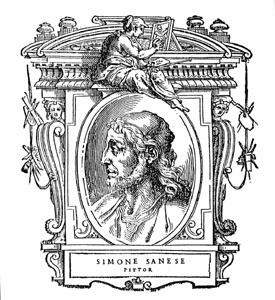 Illustratio from "Le Vite" by Giorgio Vasari, edition of 1568. For the artist portrayed see filename